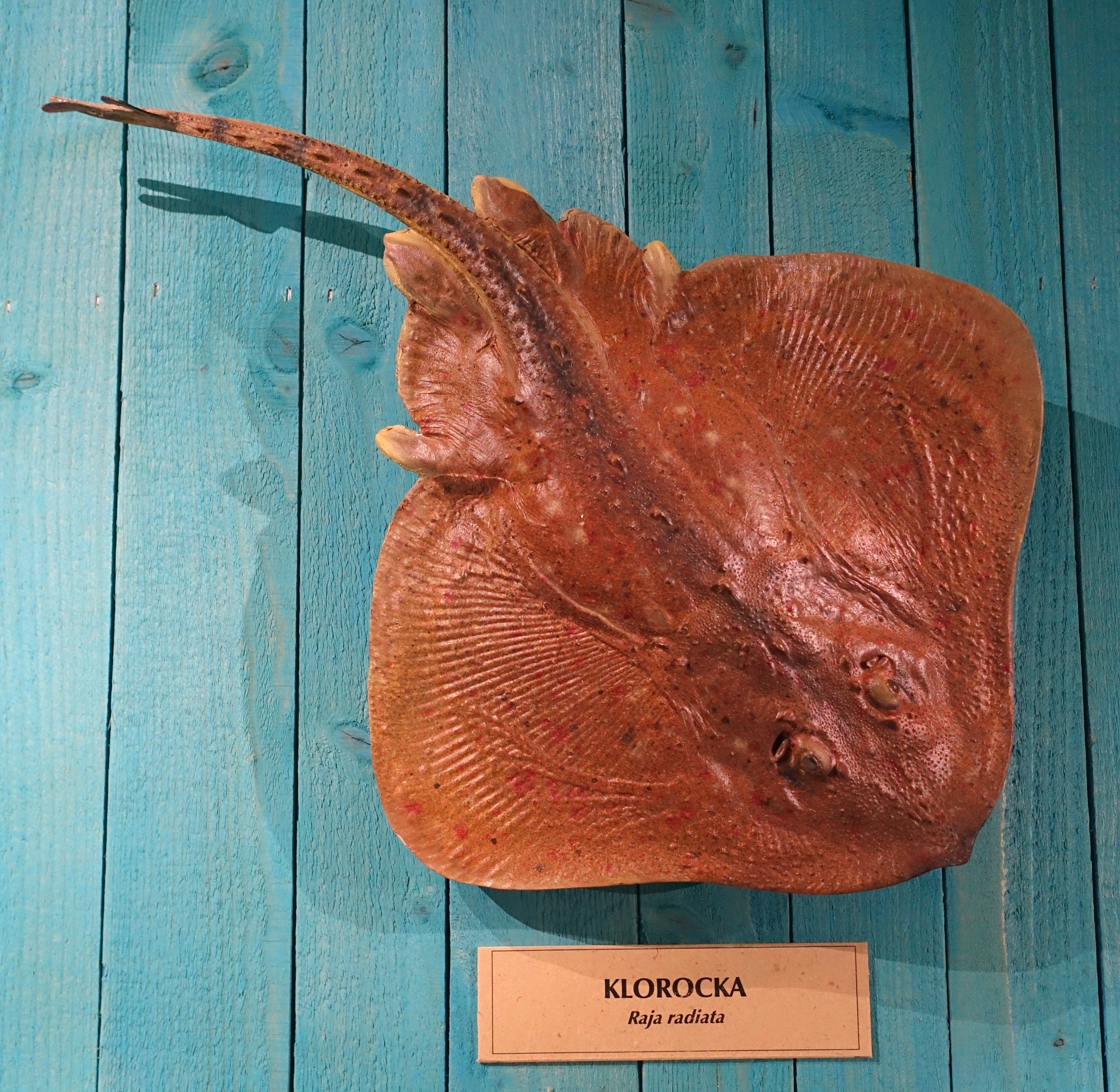 Exhibit in the Swedish Museum of Natural History - Stockholm, Sweden.